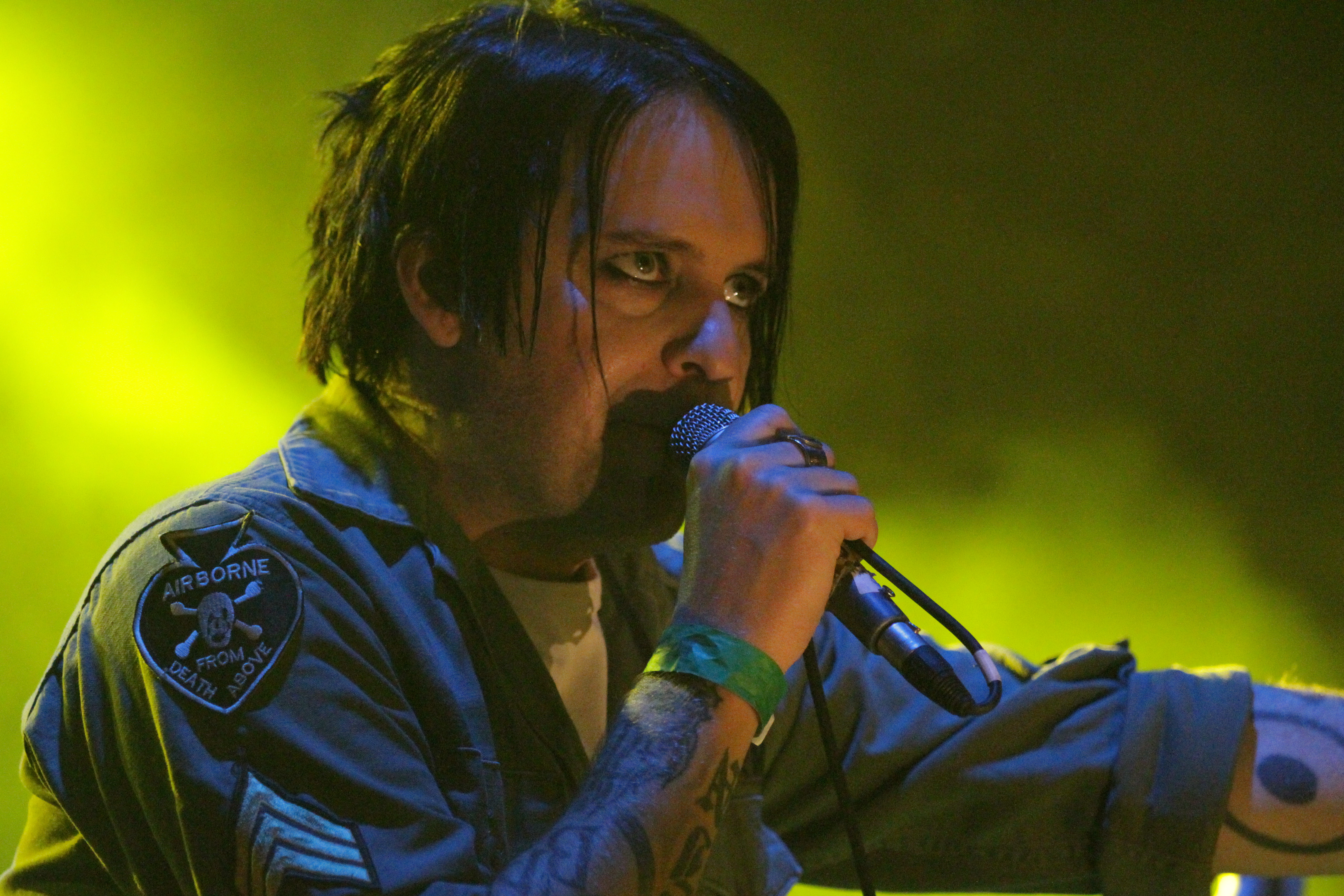 Apoptygma Berzerk at the Wave-Gotik-Treffen 2014. Apoptygma Berzerk in der Agra-Halle